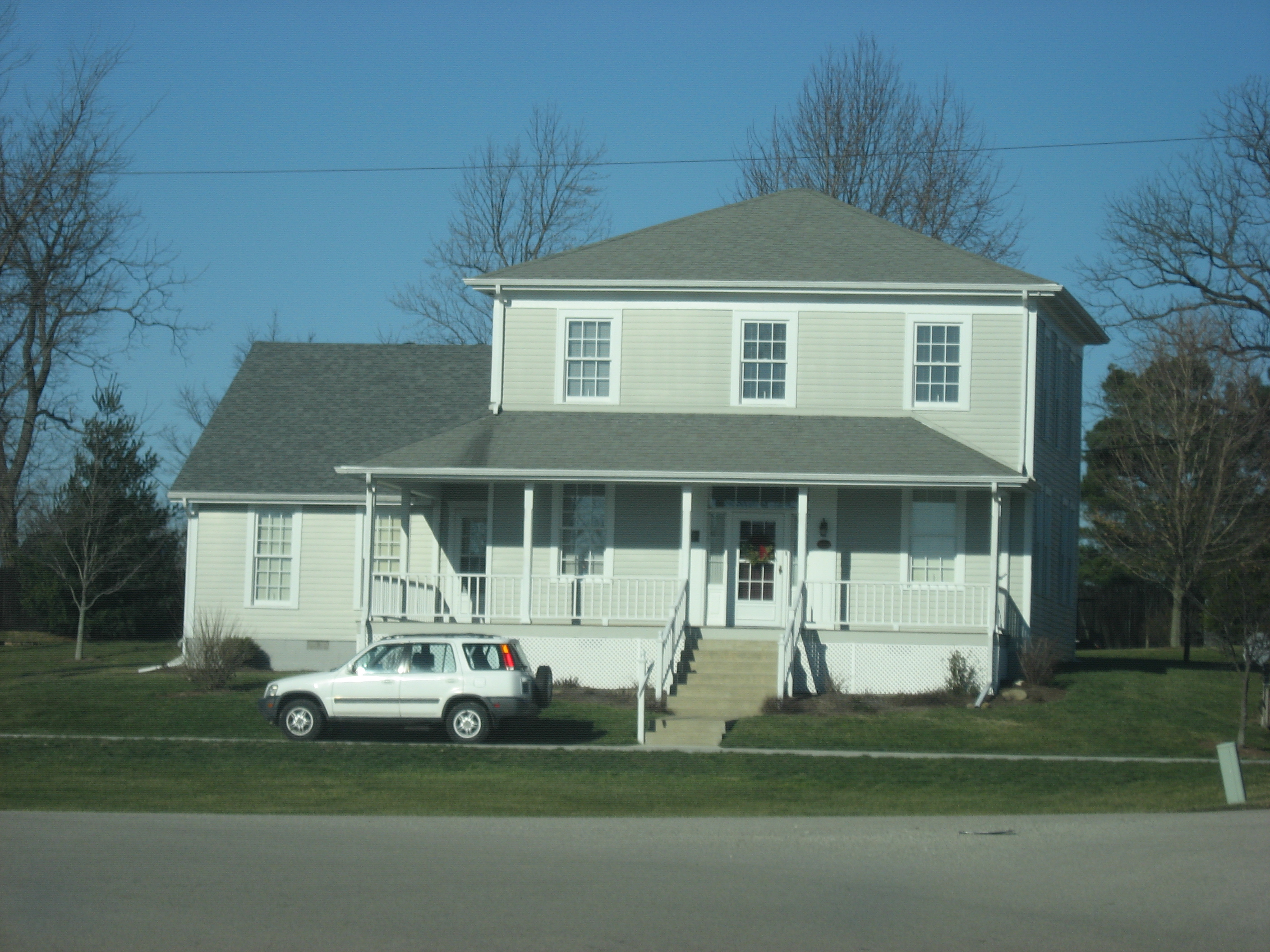 Front of the Job Garner-Jacob W. Miller House, located on the northwestern corner of Bethel Pike and County Road 700N at Bethel in Harrison Township, Delaware County, Indiana, United States. Built in 1842 and since modified substantially, it is listed on the National Register of Historic Places.